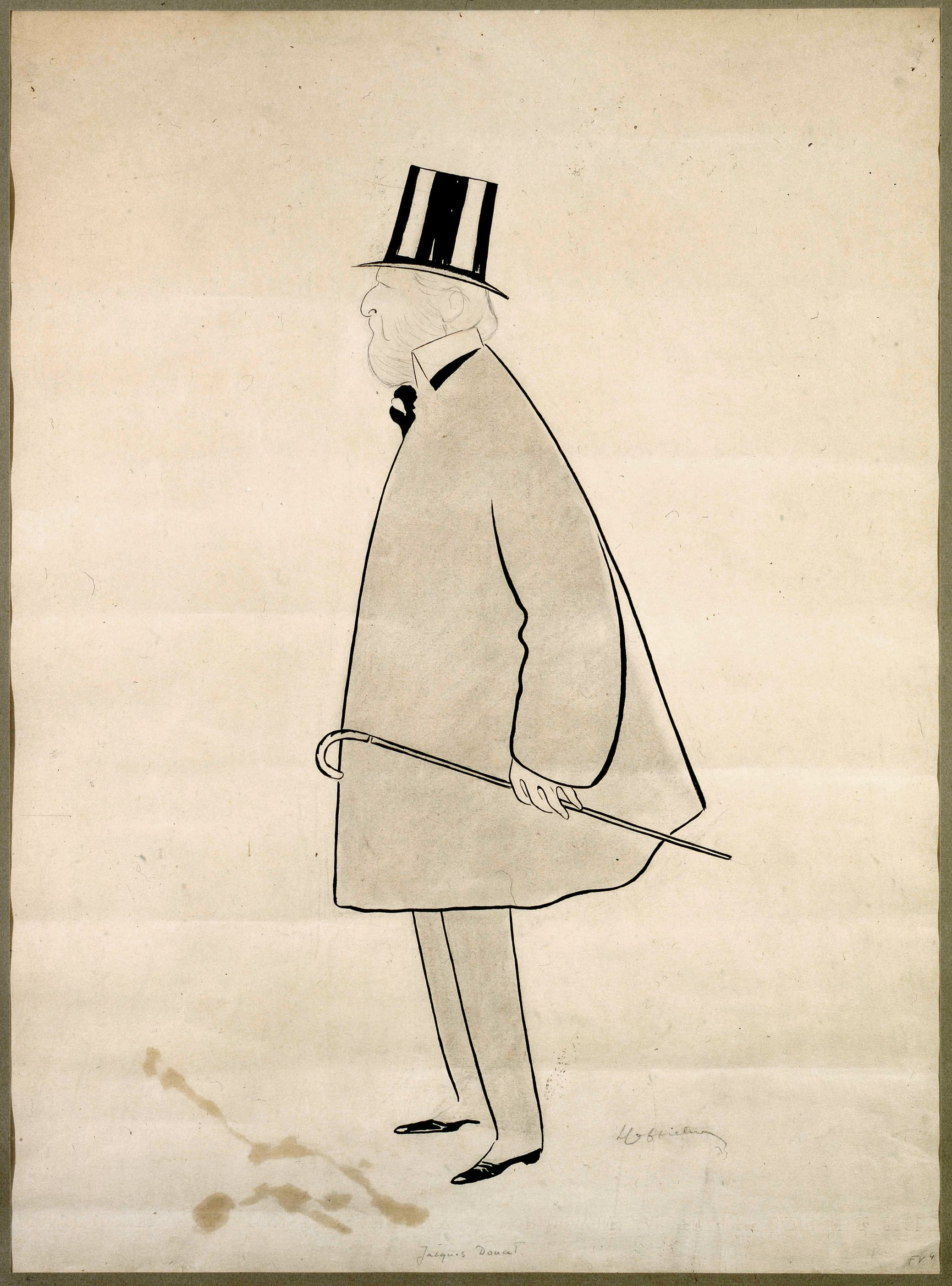 Caricature of fashion designer and arts patron Jacques Doucet (1853-1929) by Leonetto Cappiello, 1903